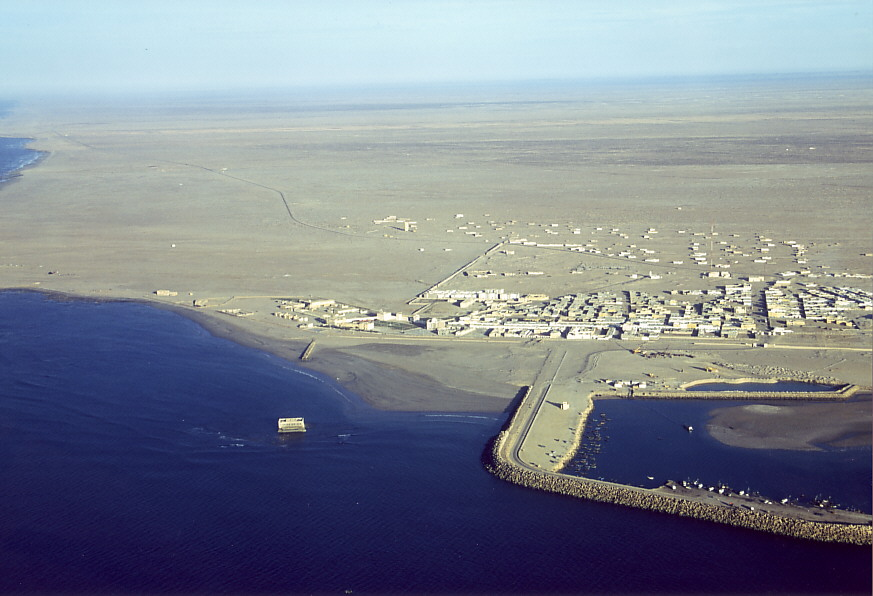 Tarfaya From Sky